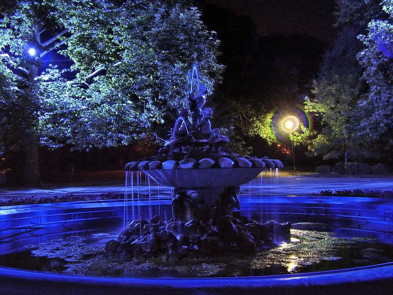 Night shot of a fontain in Sea Garden, Varna, Bulgaria.